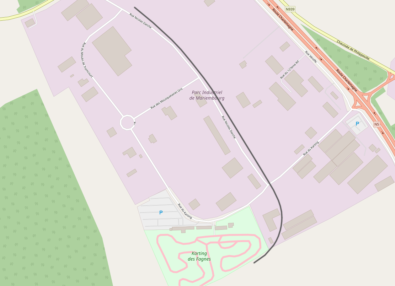 Belgian Railway Line 286, Y Frasnes - Mariembourg Zoning